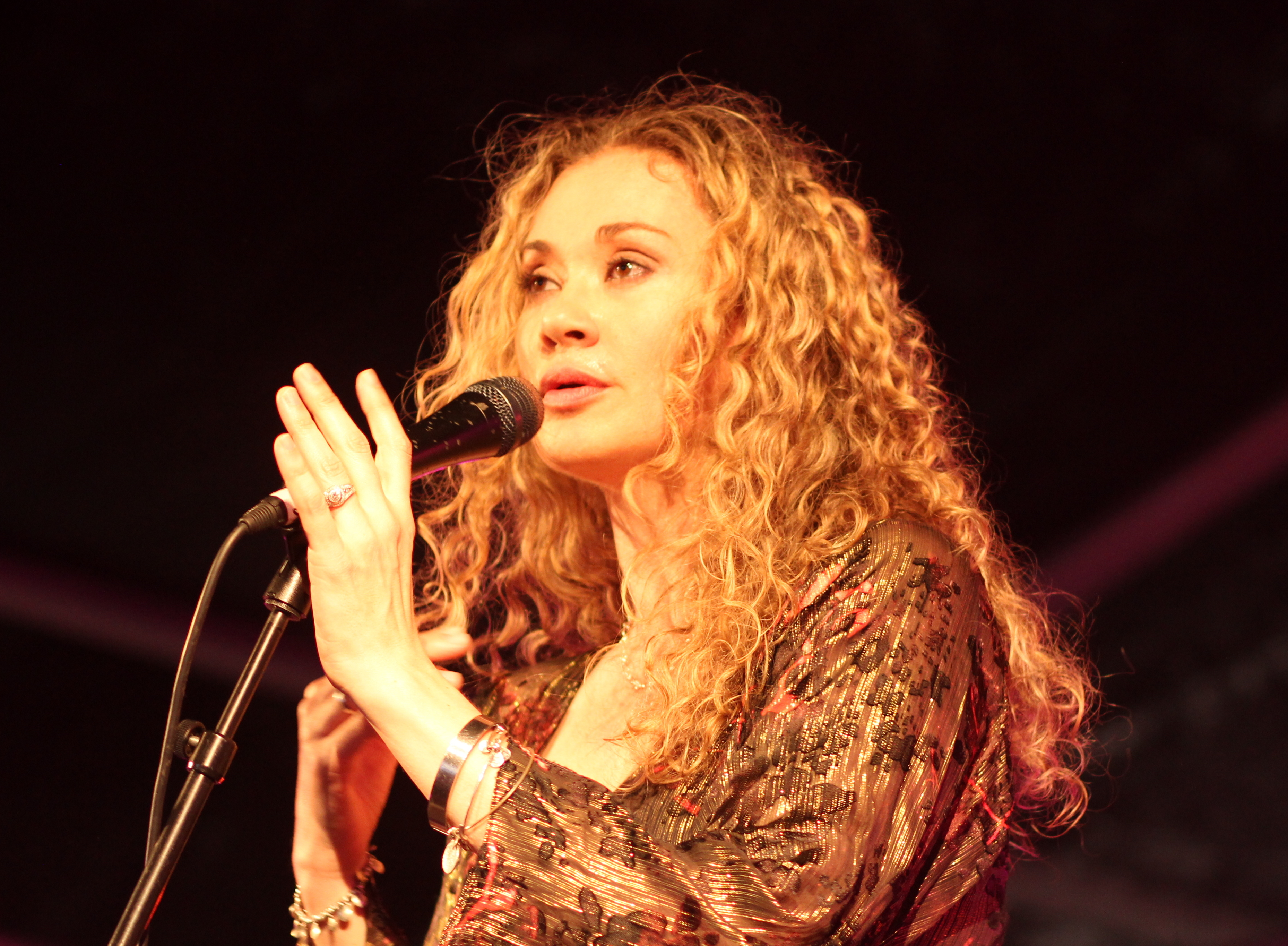 Dana Fuchs at Notodden bluesfestival 2013